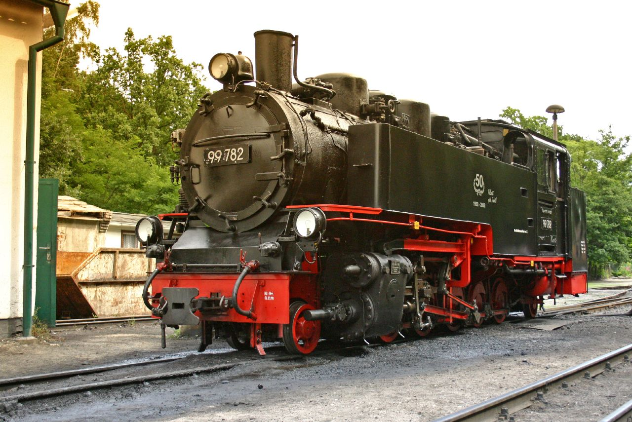 750mm narrow gauge 2-10-2T (what's that in UIC classification?) built 1953 at the Rasenden Roland narrow gauge railway in Northern Germany (Thiessow).